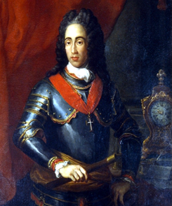 Portrait of D. Luís Carlos Inácio Xavier de Menezes (1689-1742), 5th Count of Ericeira and 1st Marquis of Louriçal.